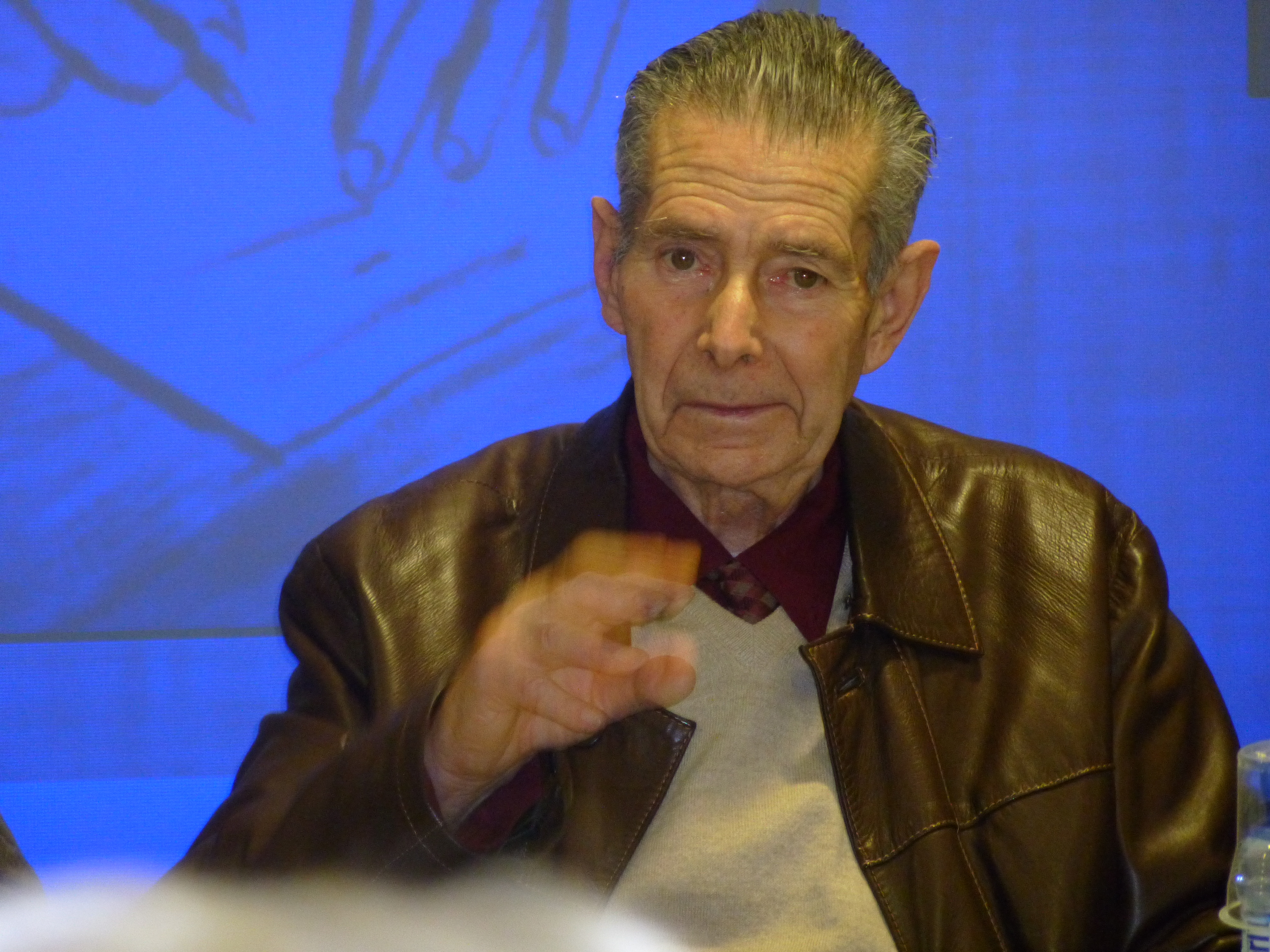 Gabriel Mora i Arana en l'acte d'homenatge 2014